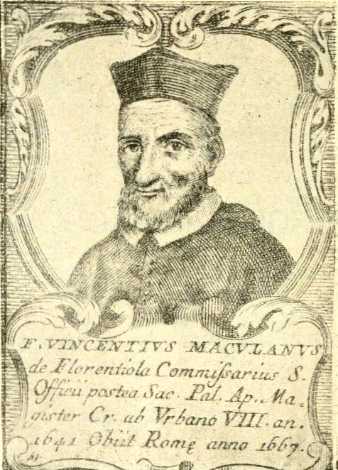 Portrait of the Italian cardinal Vincenzo Maculani. In "Profili di illustri piacentini" by Andrea Corna (Piacenza, 1914)